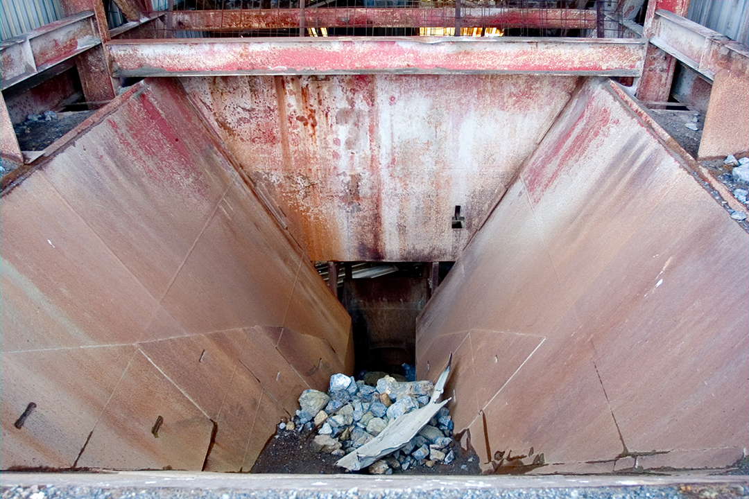 The entrance bin of a derelict silver mine rock crusher.